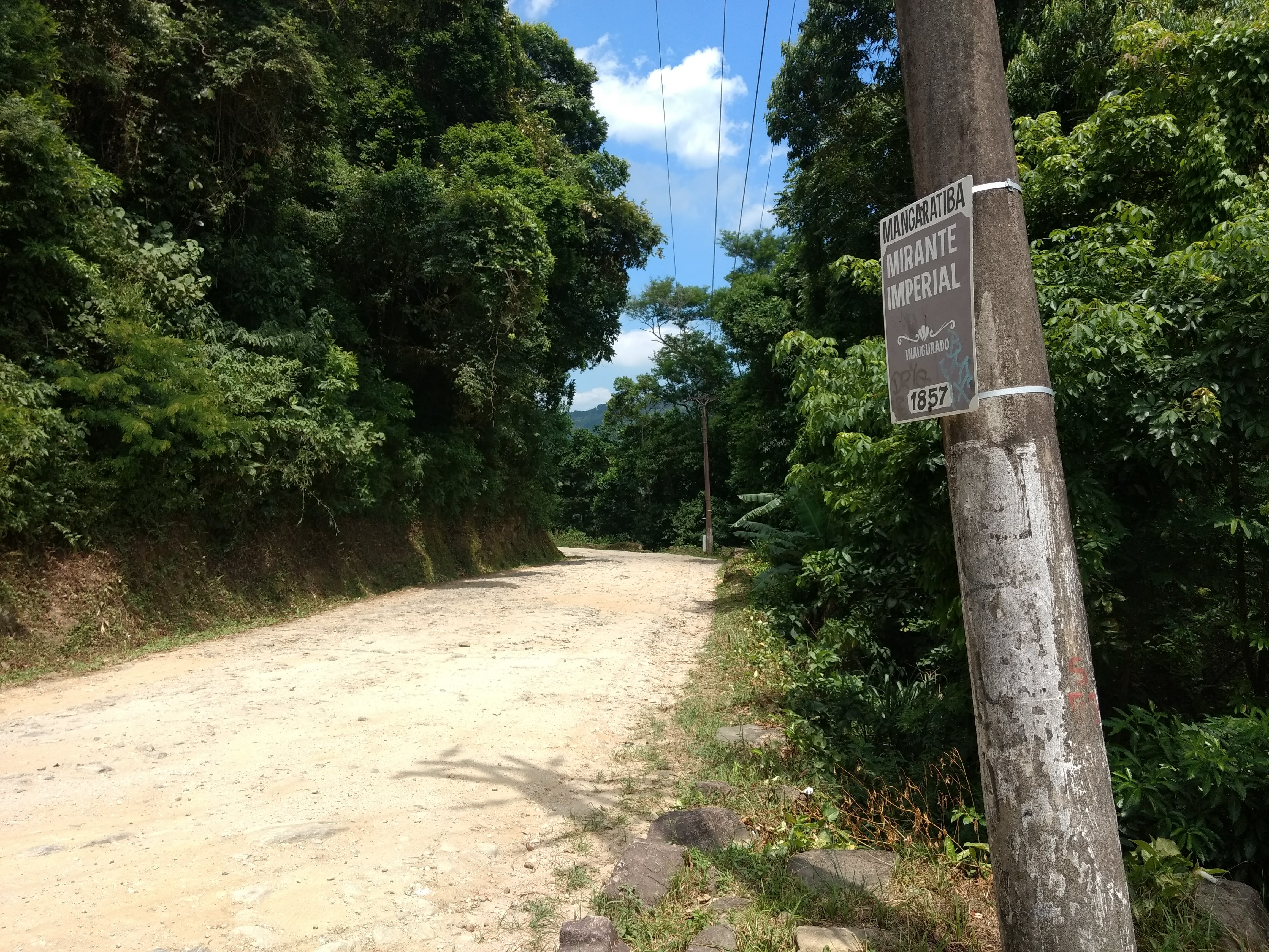 Road RJ-149 near Mirante Imperial in Mangaratiba, Brazil